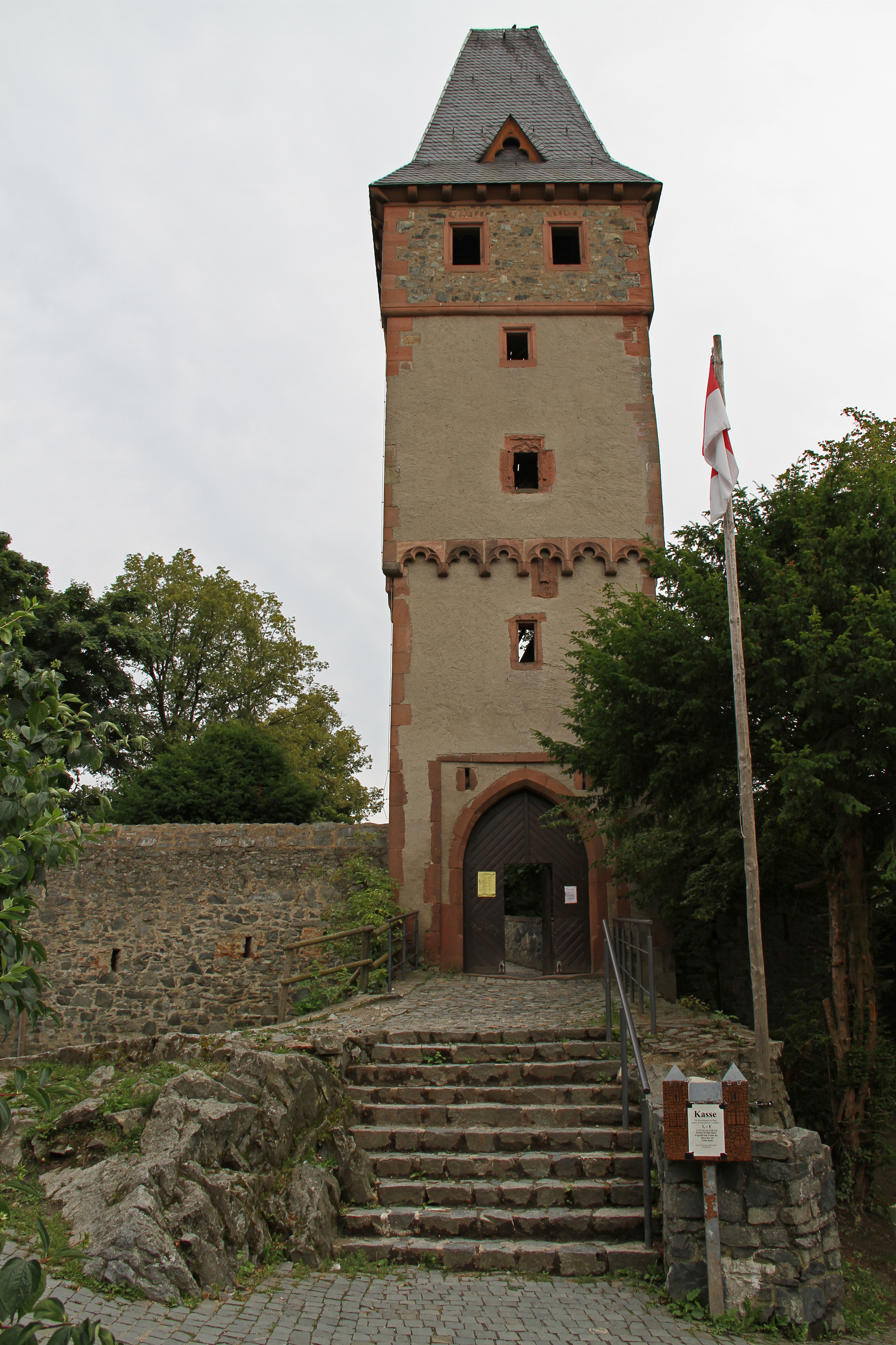 Gateway tower of castle Frankenstein